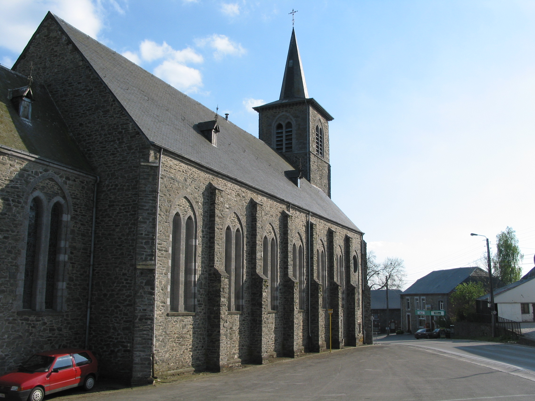 Longchamps (Bertogne) (Belgium), the Saint Lambertus'church (1905).